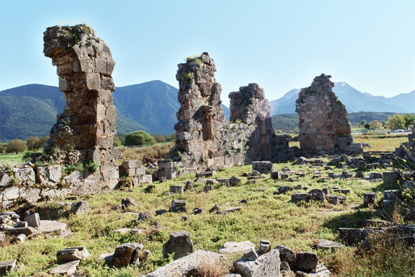 The ruined buildings of the Cistercian (Frankish) monastery at Zarakas on the shores of lake Stymphalia.